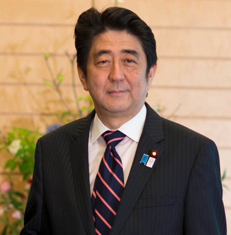 Sinzo Abe cropped.